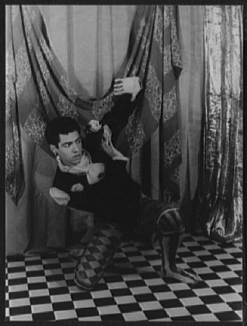 Title: Portrait of Francisco Moncion, in Sebastian Abstract/medium: 1 photographic print : gelatin silver.